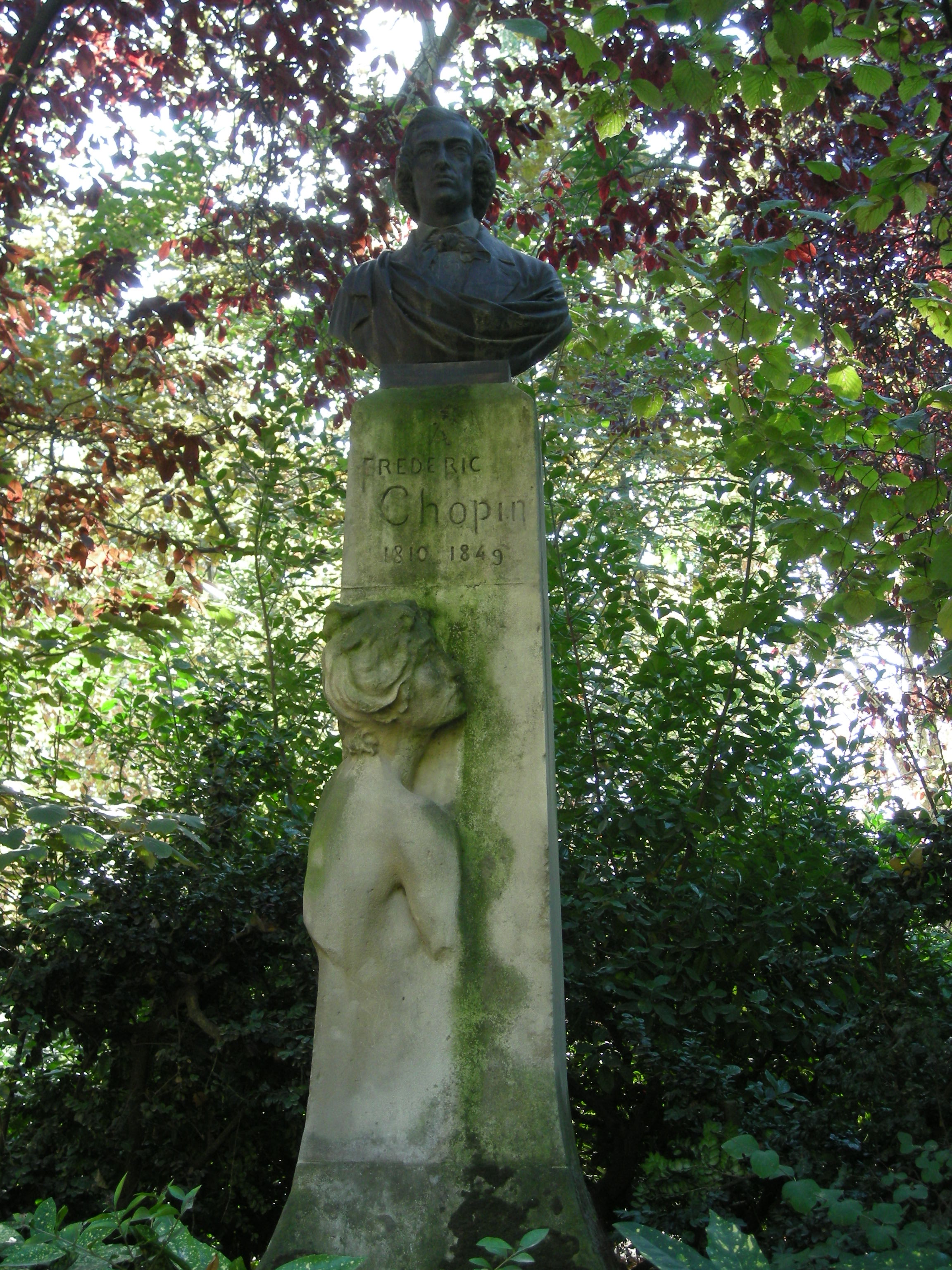 Statue in the Jardin du Luxembourg, Paris, France.